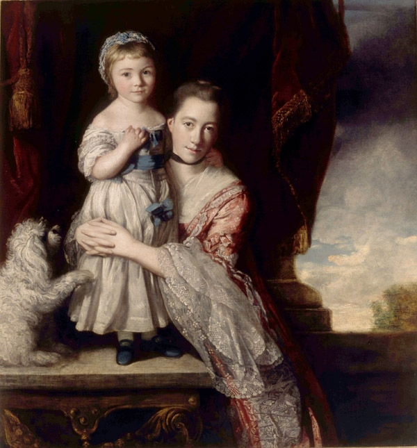 Portrait of Georgiana Poyntz, Countess Spencer, and her daughter by Joshua Reynolds.